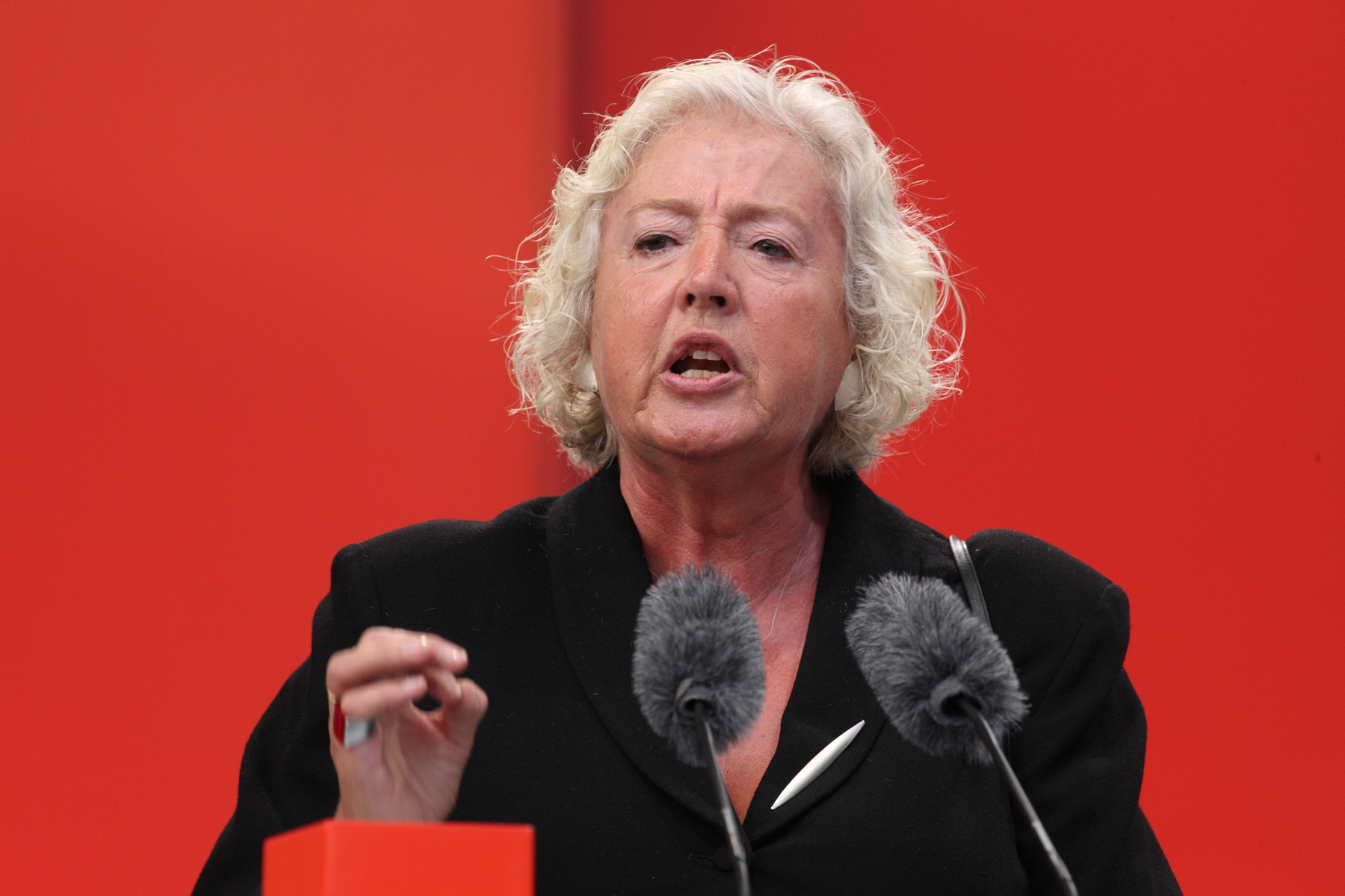 Renate Schmidt on an election campaign public appearance in Erlangen, Germany